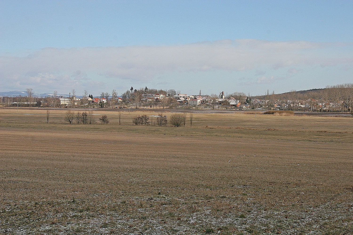 Humburky as seen from Vysočany